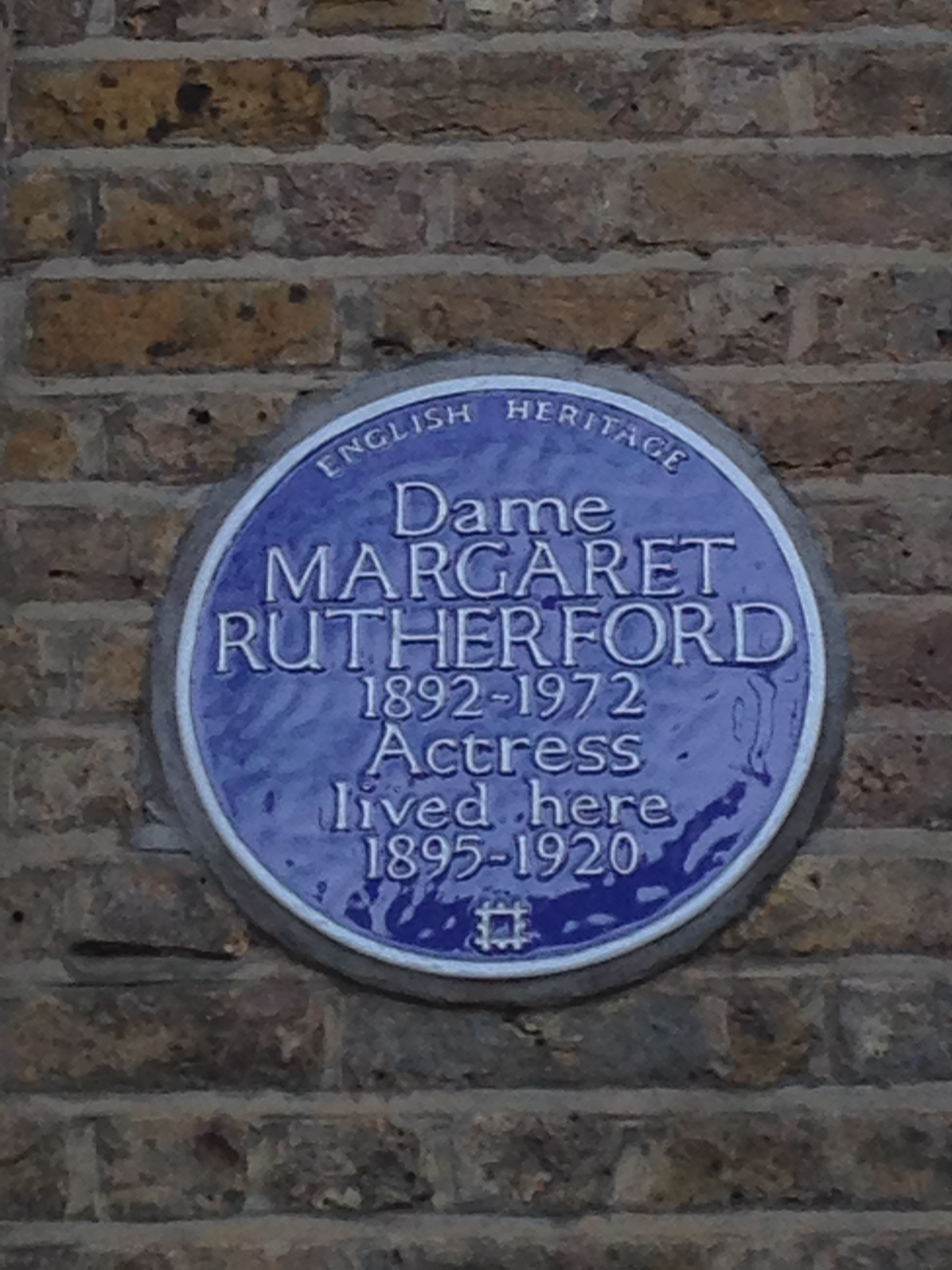 The English Heritage blue plaque for Margaret Rutherford at 4 Berkeley Place, Wimbledon, London SW19 4NN, in the London Borough of Merton.